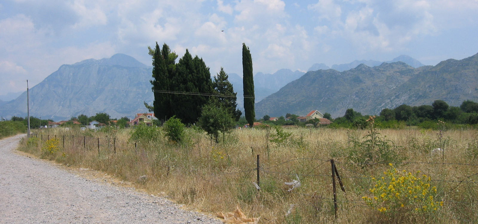 Prokletije seen from somewhere near Kopliku; some high peaks can be seen in the back – probably Mali i Bishkazit (1868 meters) at the far right and Maja e Kurrilës (1847 meters) left of the trees. On the right hand side on the foregroud is Mali i Kuqit (Red Mountain, 692 meters).